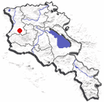 Location map for Artik, Armenia. Made using Aramgutang's template.